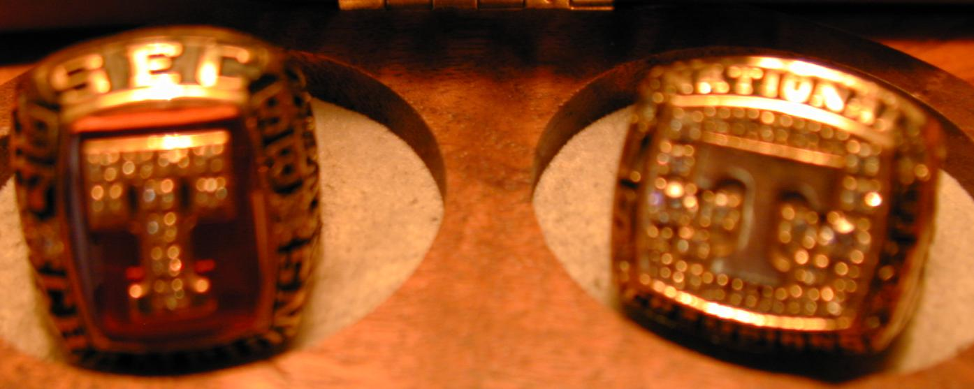 C. John Chavis